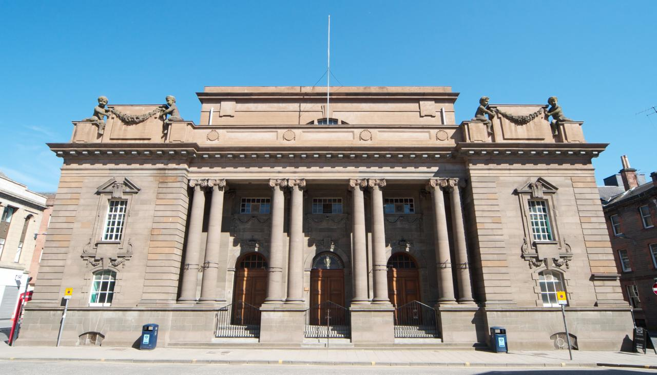 Perth, King Edward Street, City Hall Wikidata has entry Q17848859 with data related to this item.